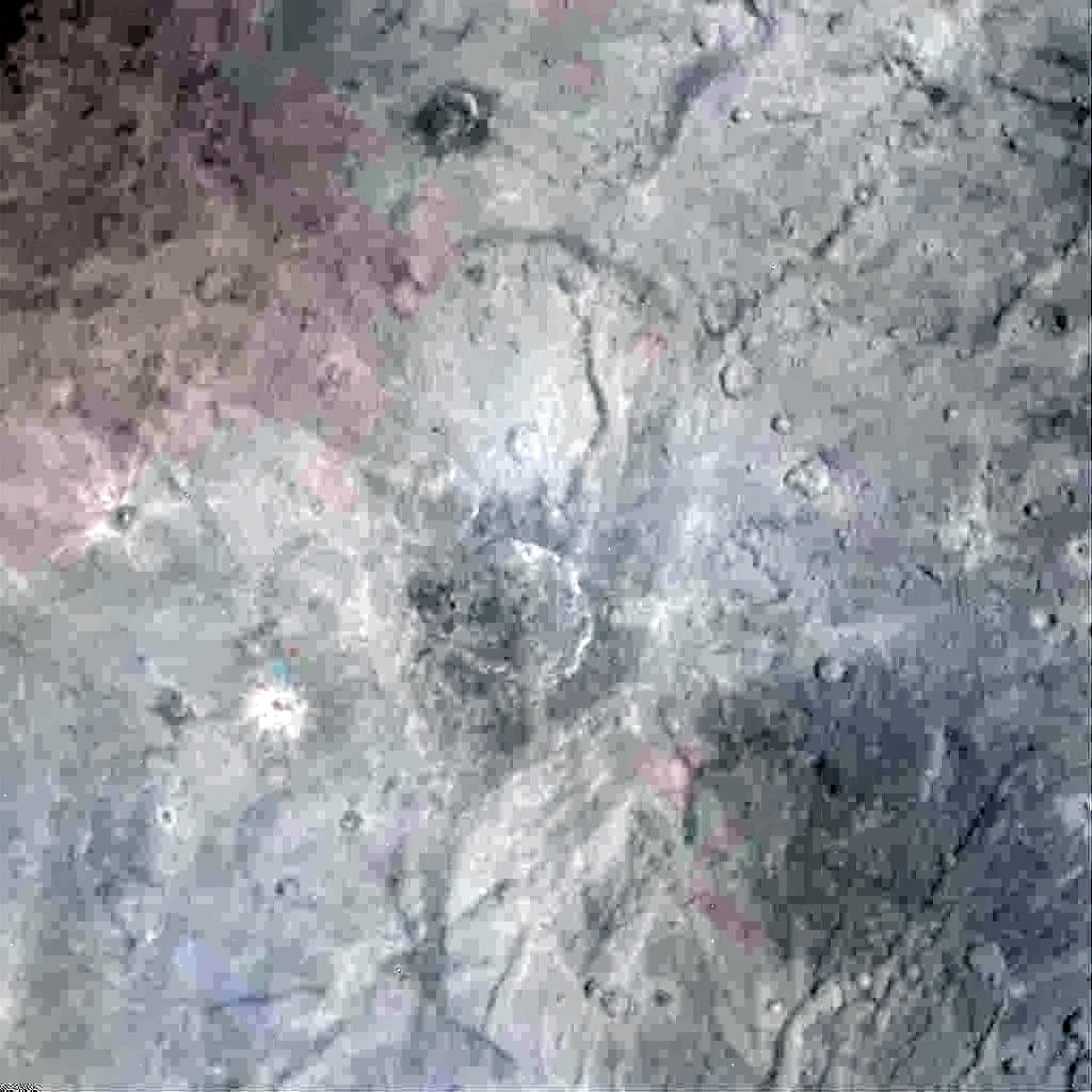 Photo of Charon centered on Ripley crater